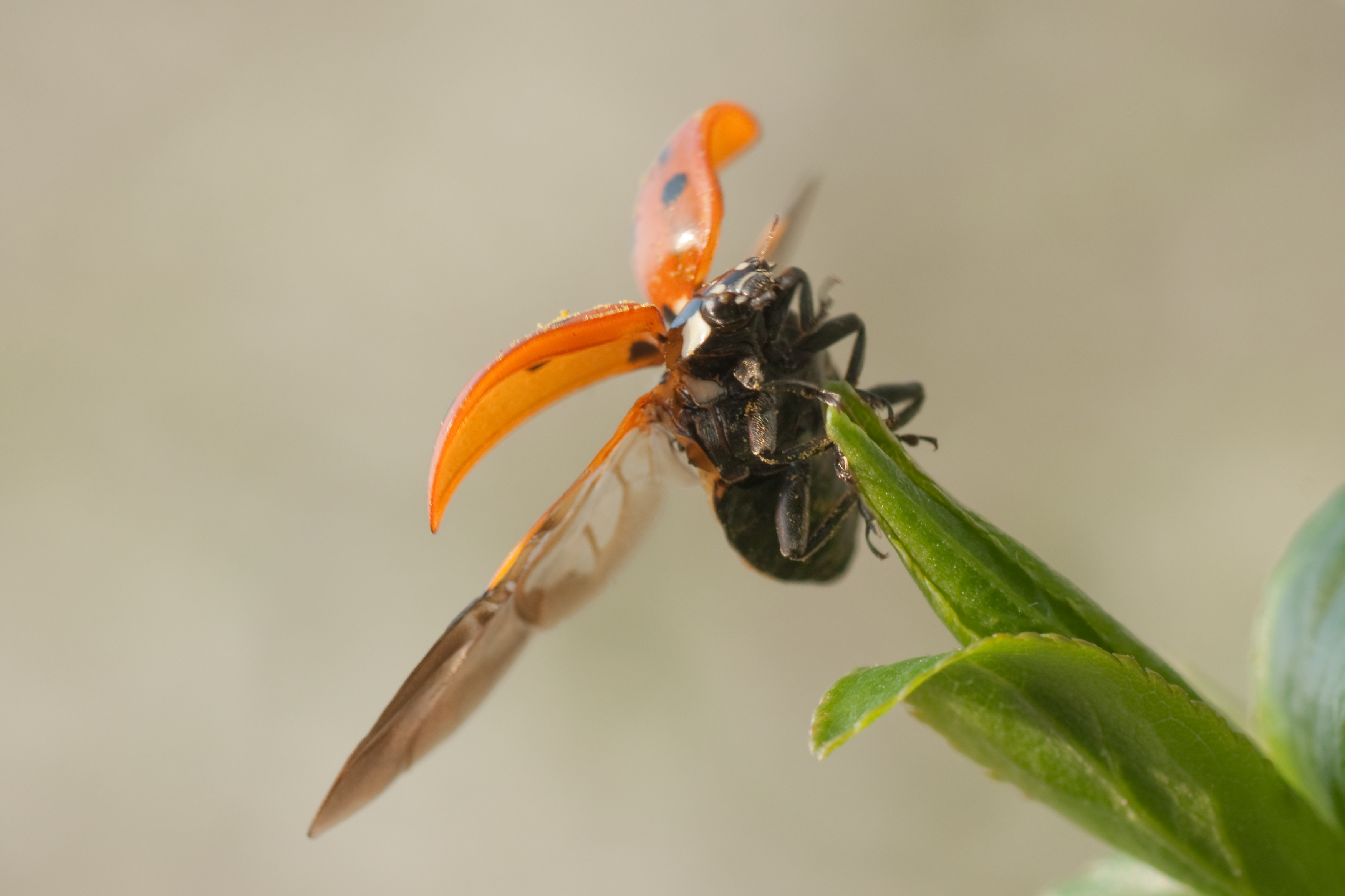 a just starting Ladybird (Coccinella septempunctata)